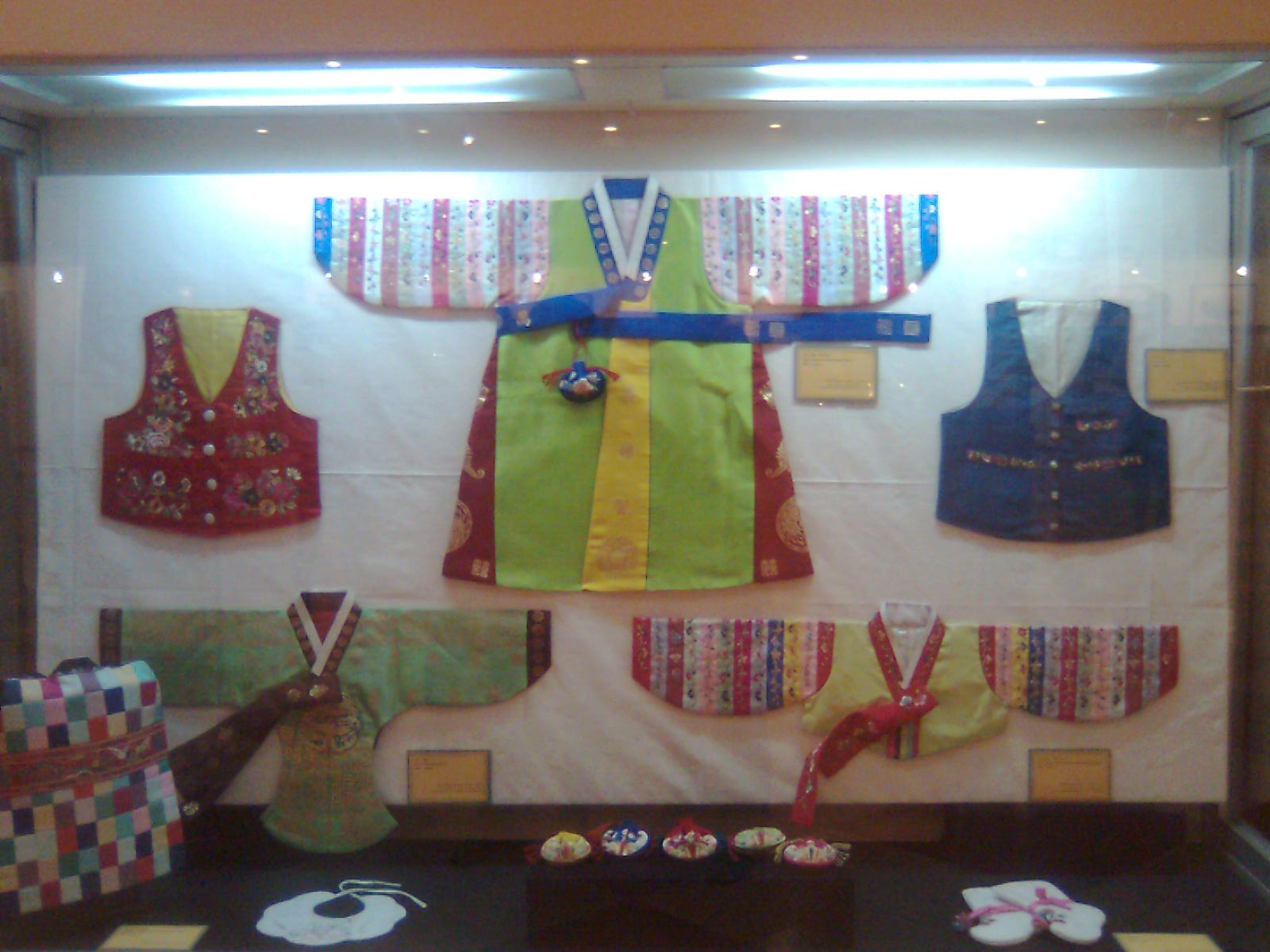 Baby's Hanbok, collection of Mrs.Han Sang-soo, at the Korean Embroidery exhibition in National Museum, Jakarta, Indonesia, October 18th, 2009.